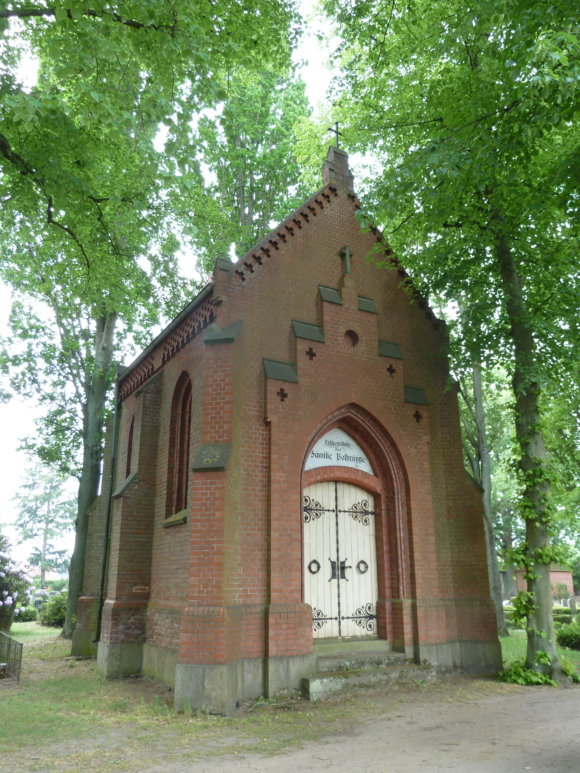 Funeral of Bolbrügge Family, Grabow, Mecklenburg